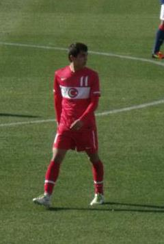 ismail kose ,football , manisa turkey